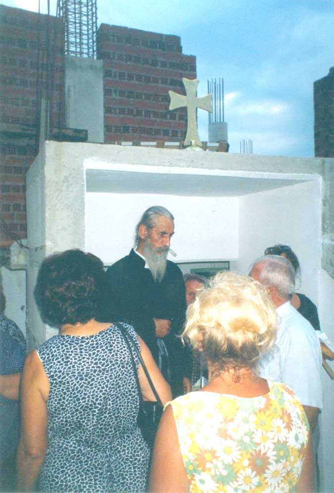 Meeting of refugees from the Greek Civil war with Nikodim Tsarknias from Sabotsko, Arideia, Aegean Macedonia, Greece